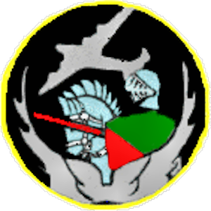 Emblem of the 38th Bombardment Squadron